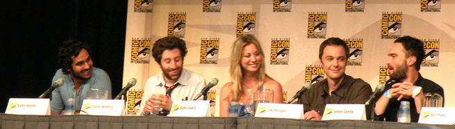 Main cast at '09 comicon